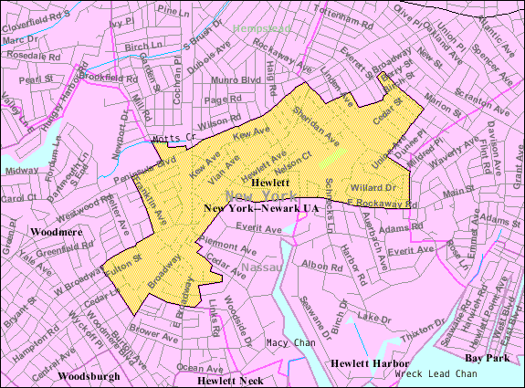 U.S. Census 2000 reference map for Hewlett, New York